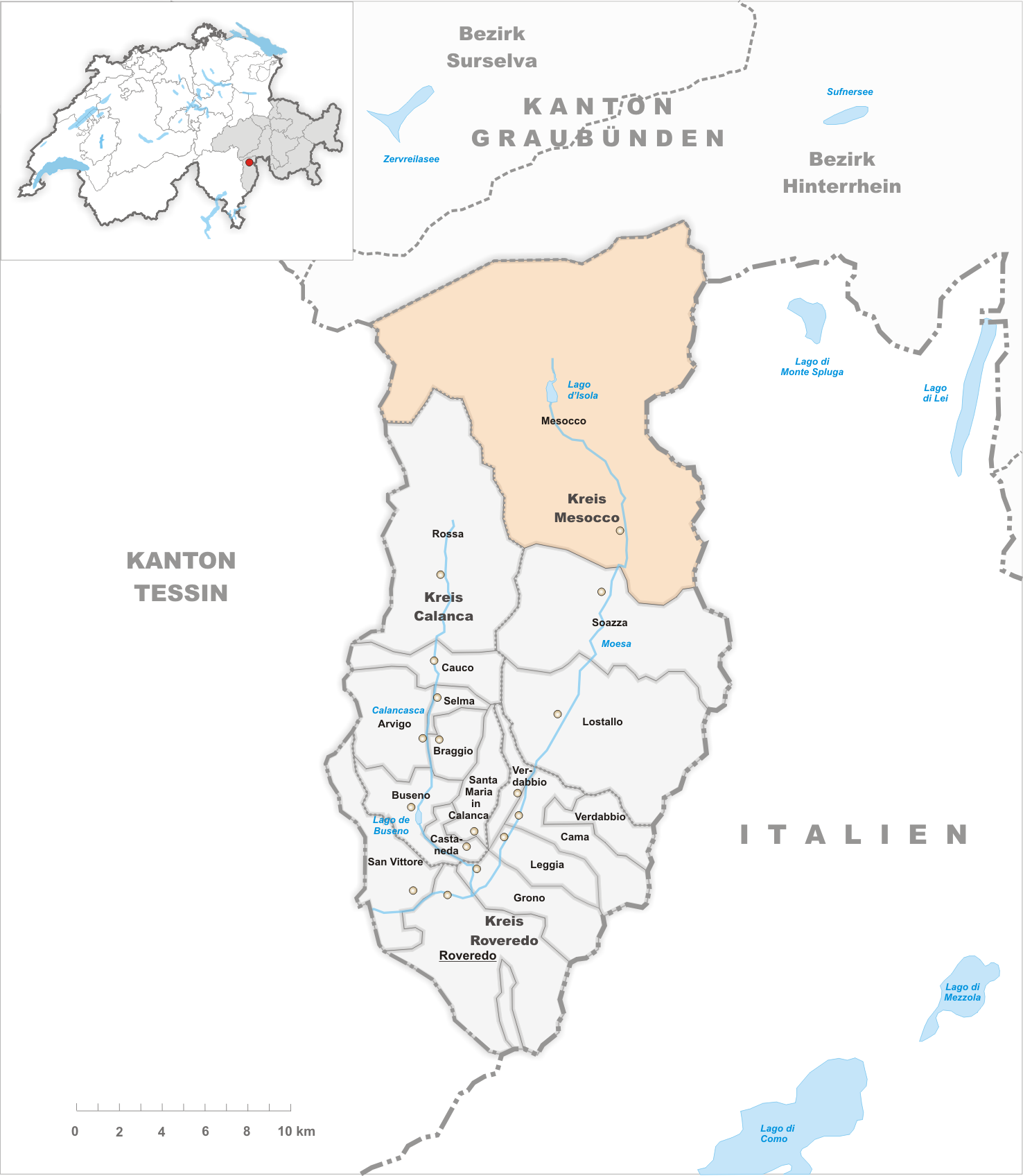 Municipality Mesocco